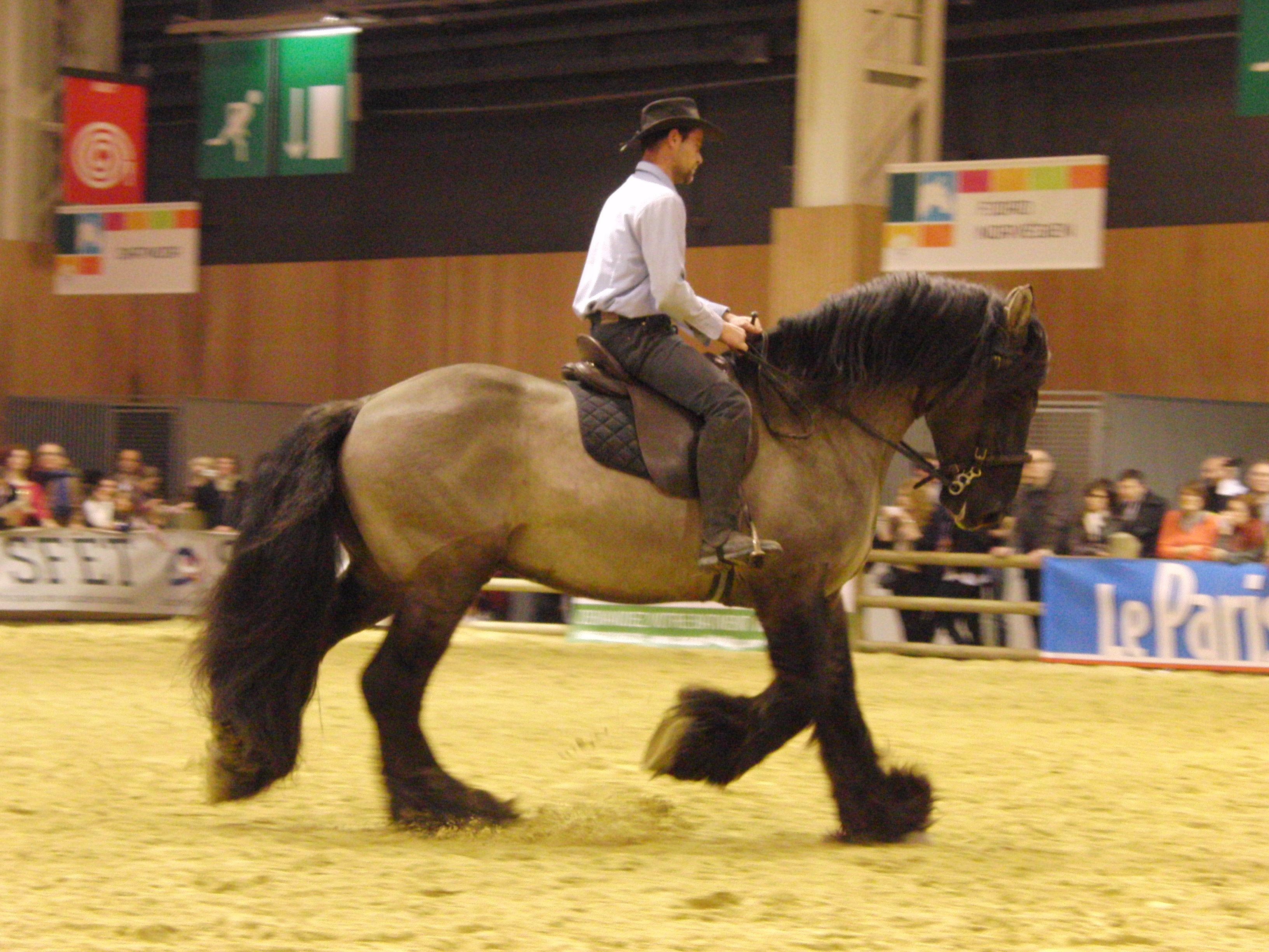 A Poitevin horse at the 2014 International Agriculture Show in Paris, France